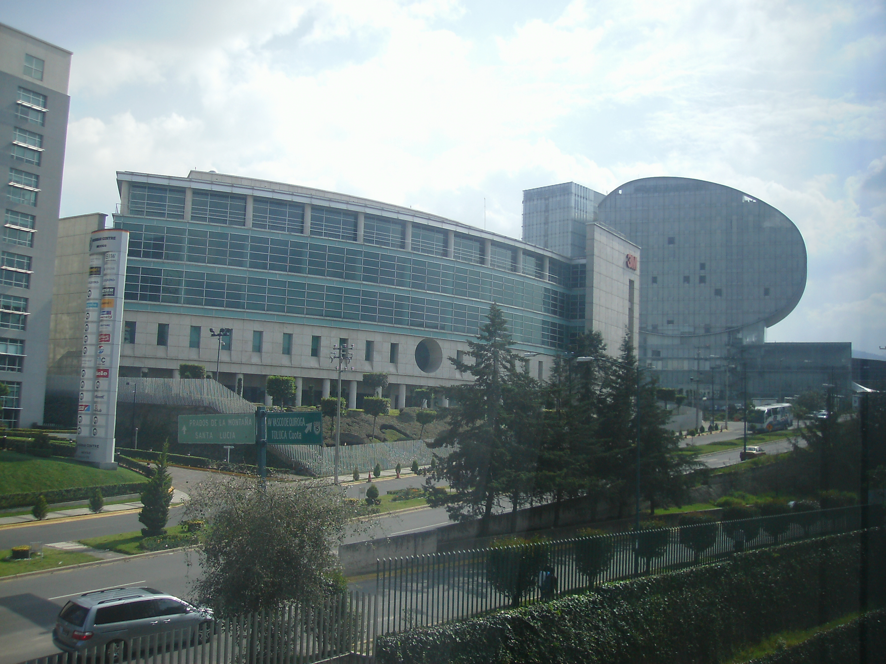 Santa Fé City. México D.F